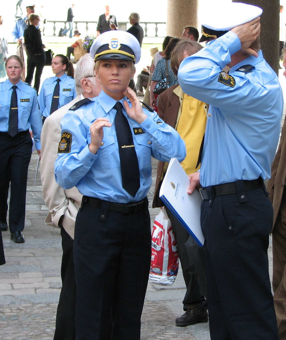 "Yes officer. Whatever you say, officer."